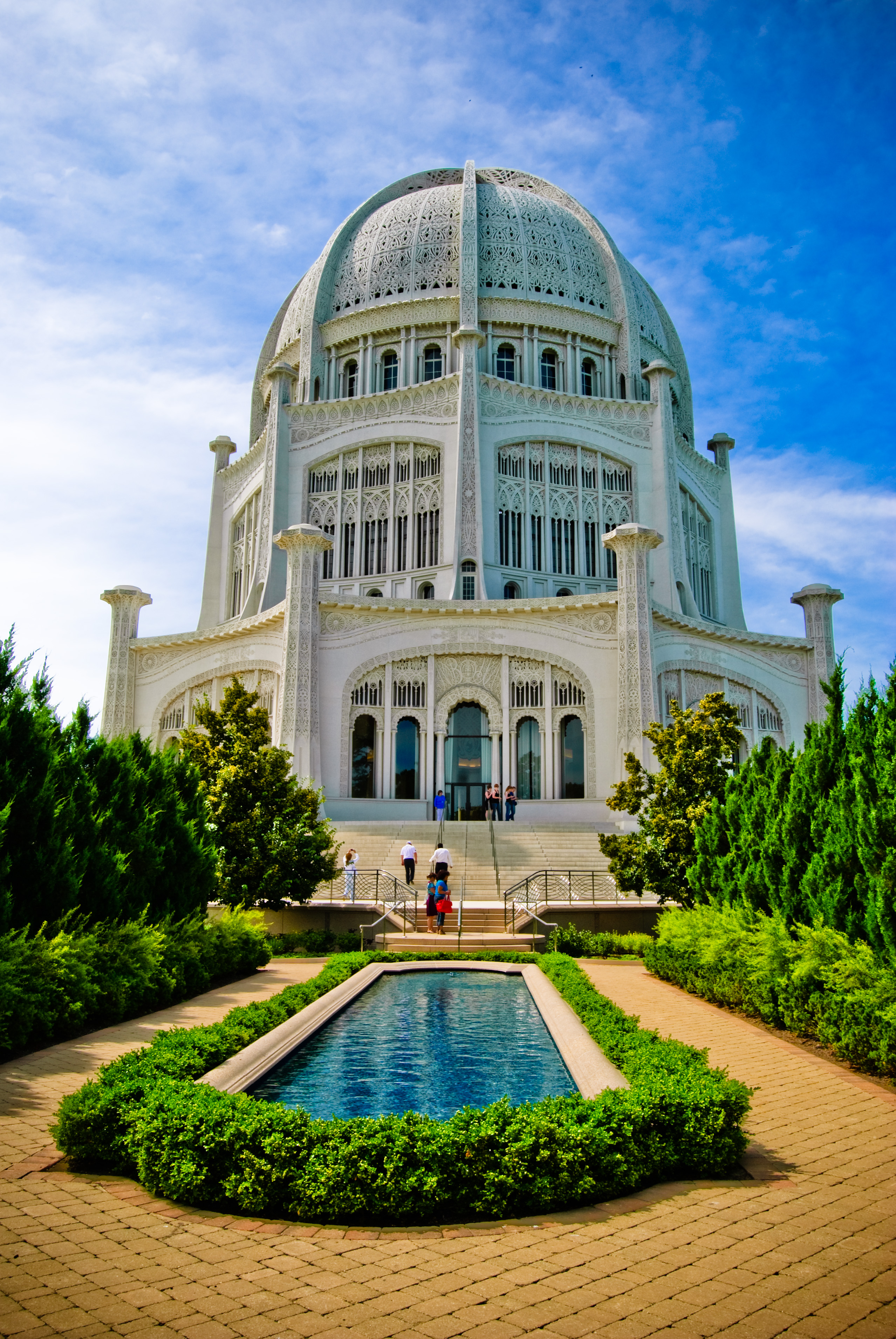 The Baha'i House of Worship, Wilmette, IL. Baha'i Temple